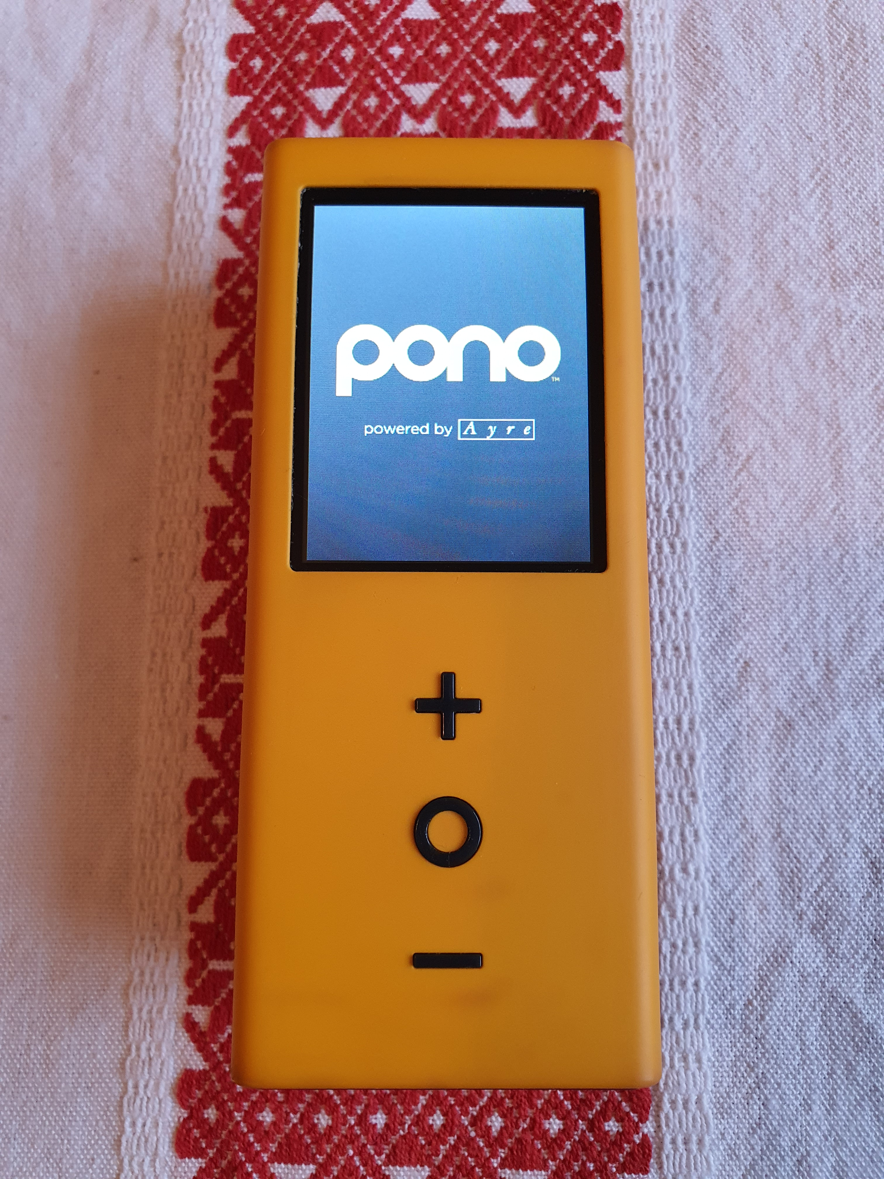 Yellow PonoPlayer, model NY001, front panel, device is booting.